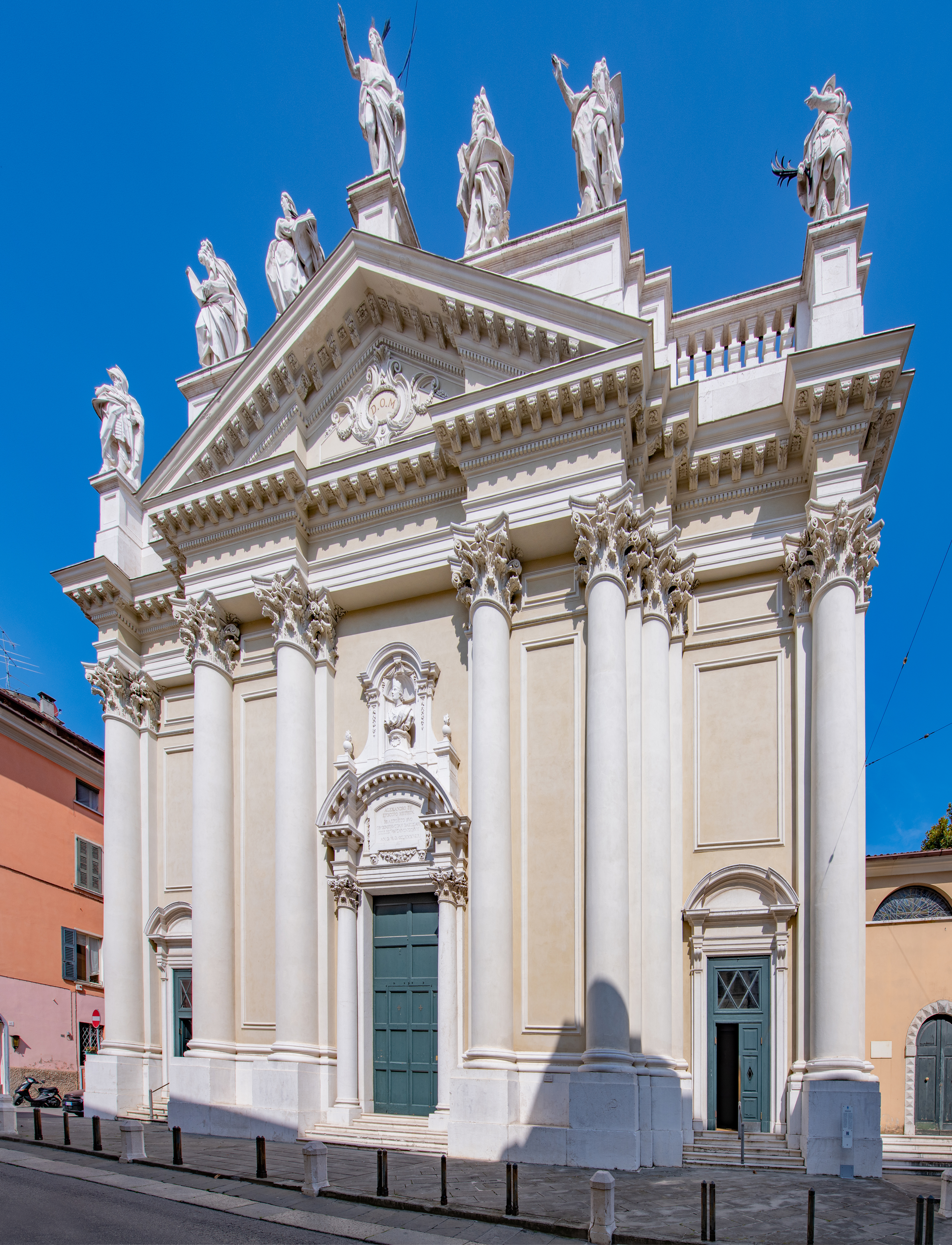 Facade of the Santi Nazaro e Celso church in Brescia.